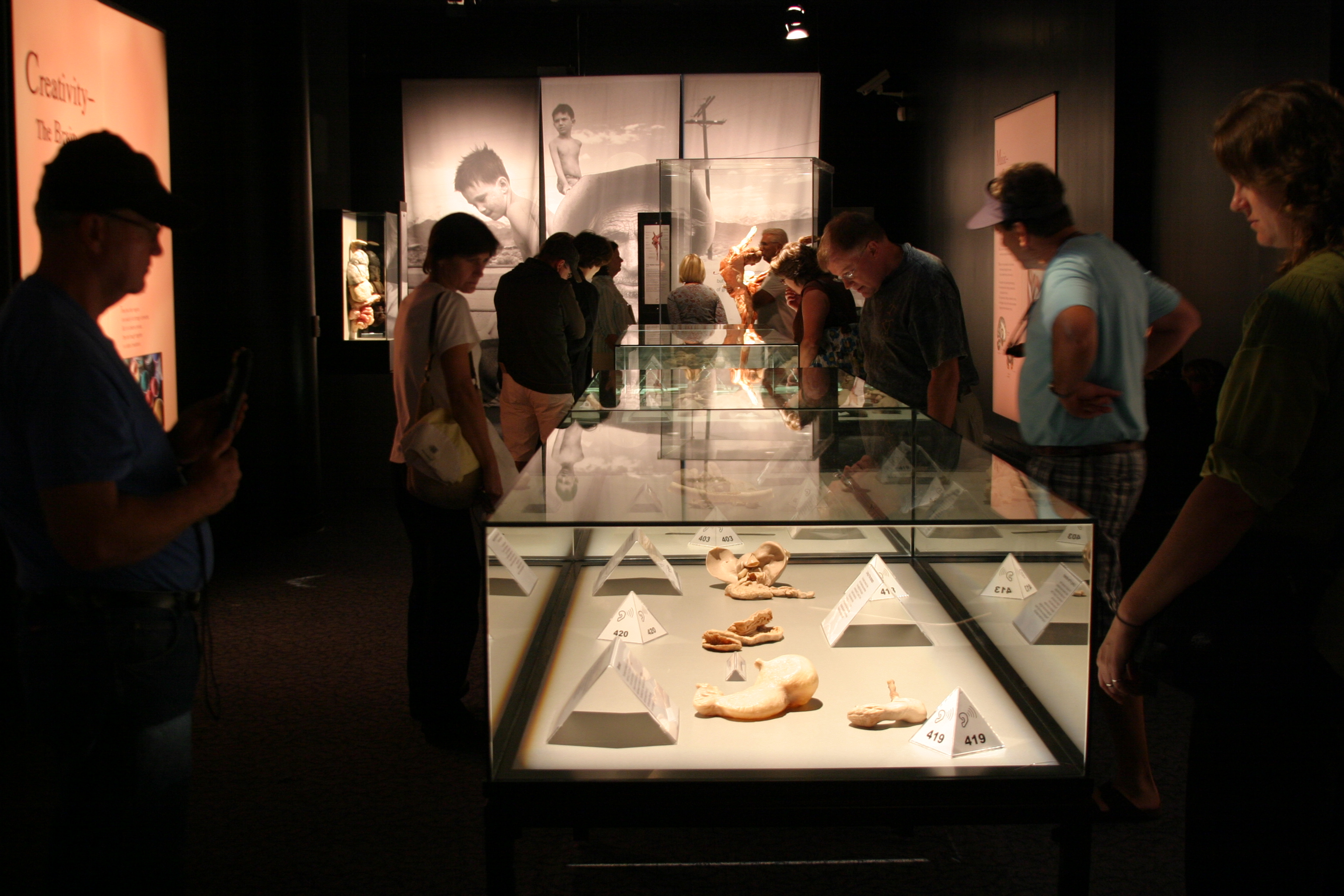 Gunther von Hagens' Body Worlds Exhibit, San Diego Natural History Museum, 2009. Photograph by Patty Mooney, Crystal Pyramid Productions, San Diego, California.